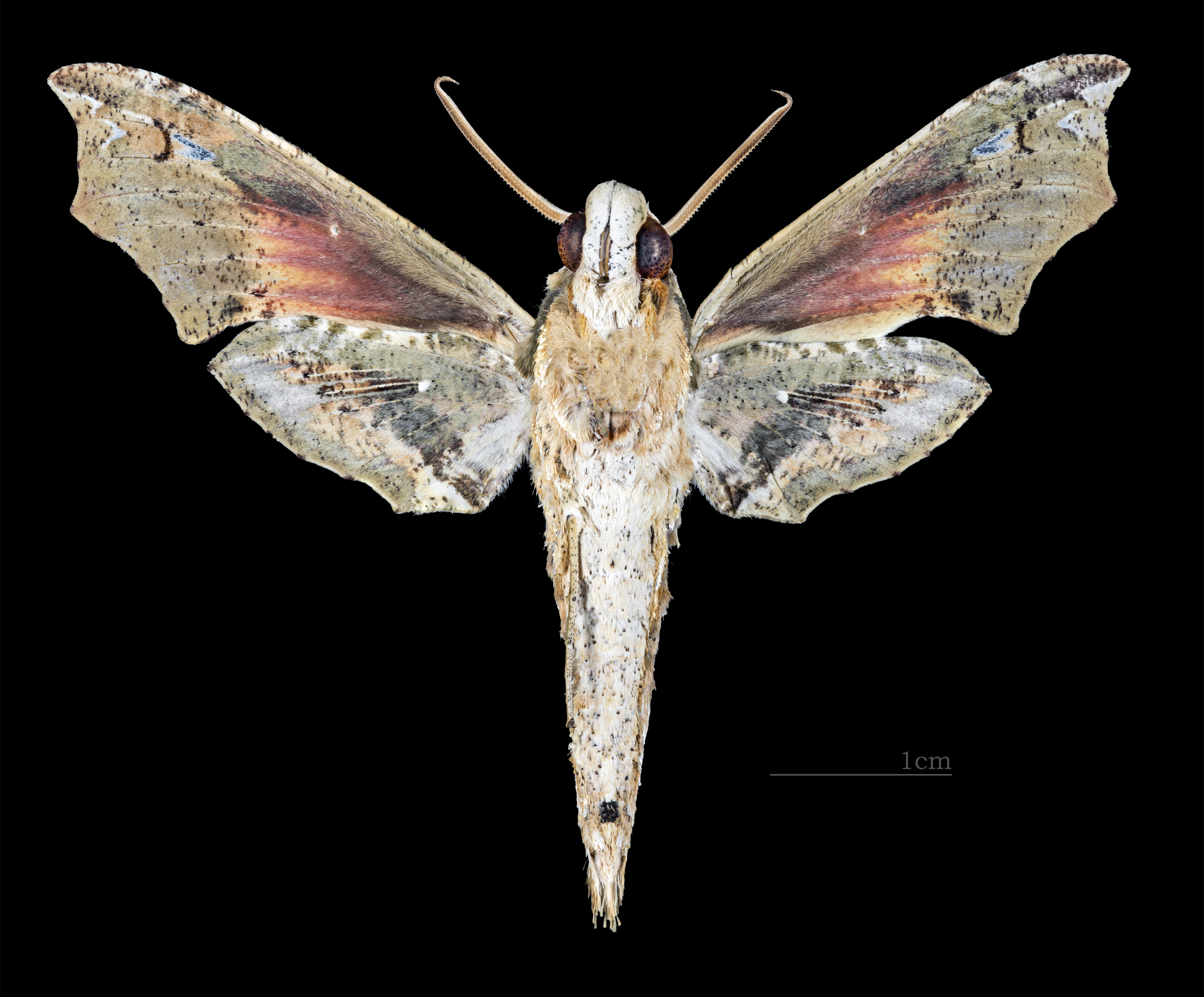 Eupanacra splendens - △ Ventral side Collection of the Mathematician Laurent Schwartz